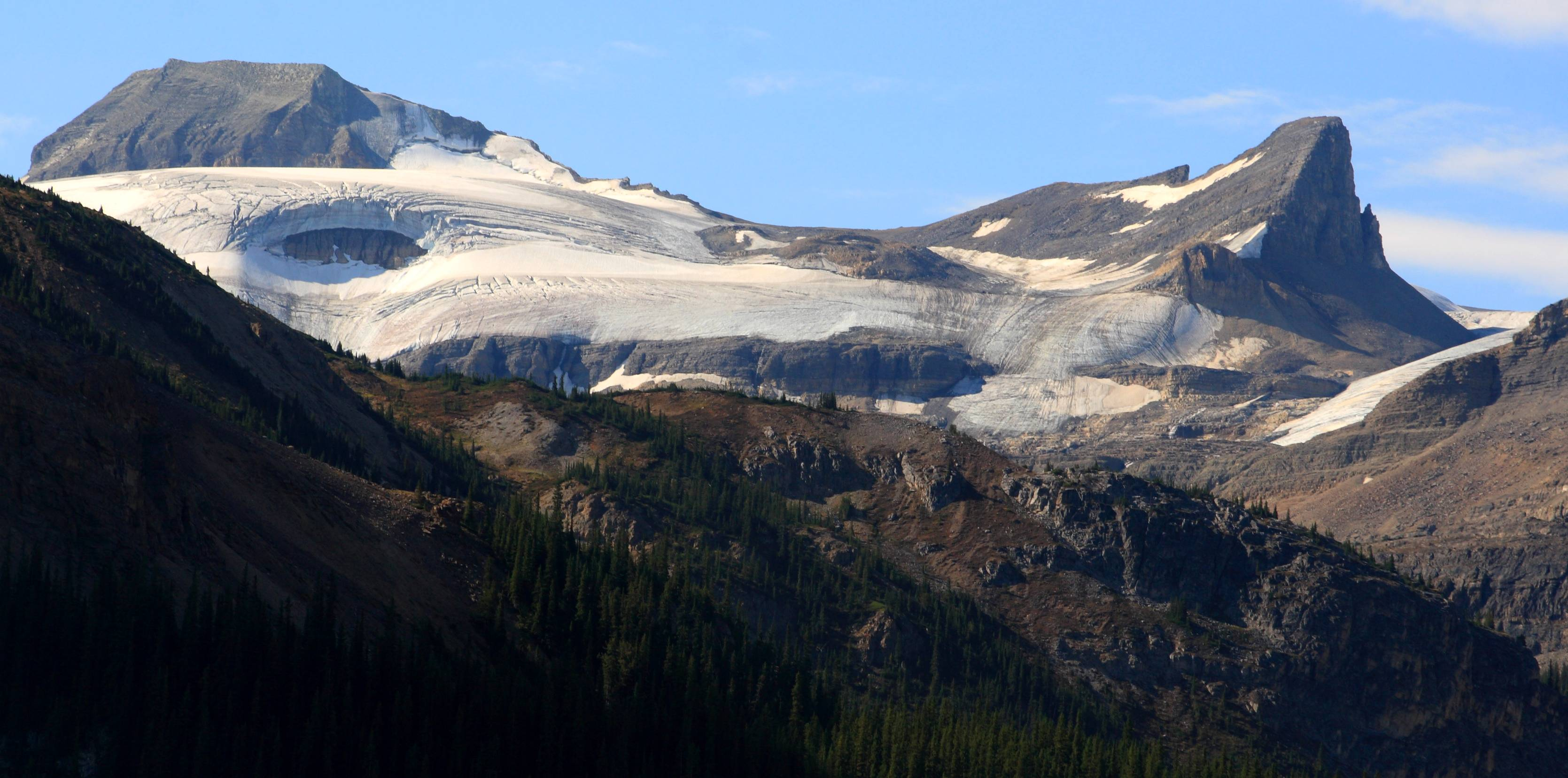 Mount Olive and Saint Nicholas Peak seen from Bow Lake area, Banff National Park, Alberta, Canada